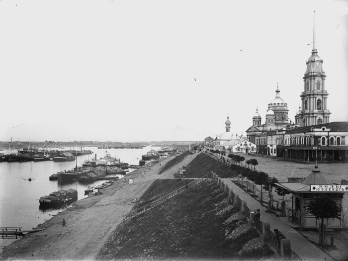 Volga embankment in Rybinsk.